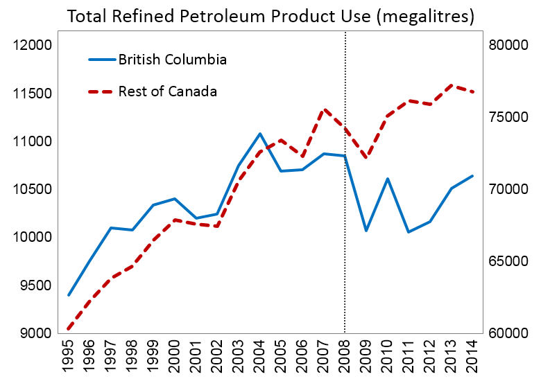 Total refined petroleum product use, for British Columbia (megalitres, left axis) vs the rest of Canada (megalitres, right axis), 1995 to 2014. The implementation of British Columbia's carbon tax in 2008 is marked.